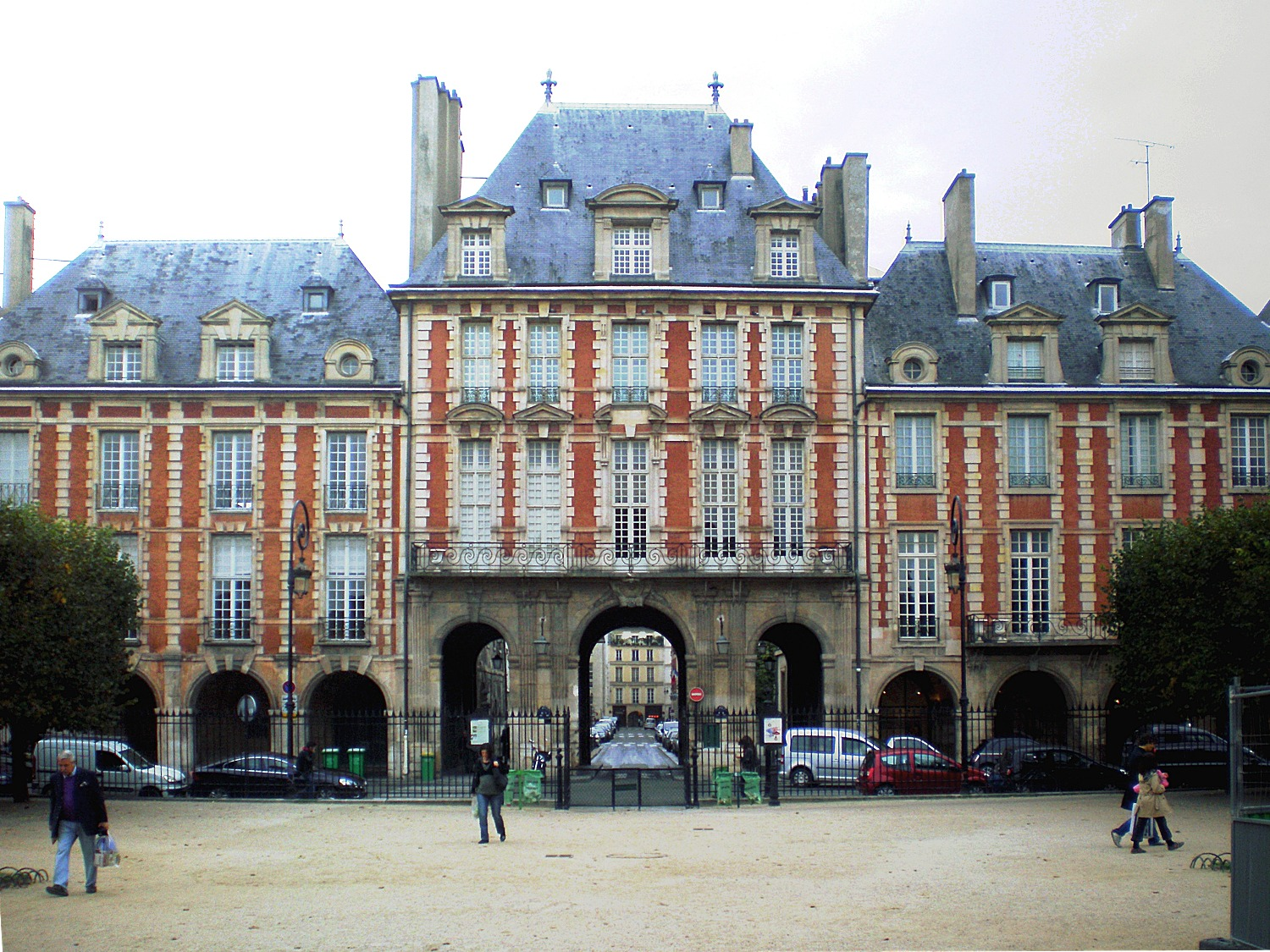 Place des Vosges - Paris